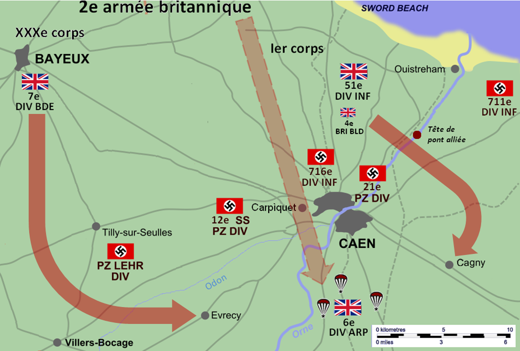 Map presenting the original plan for the "Wild Oats" operation on June 9th 1944, for which the goal was to encircle the city of Caen.